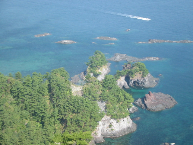 Shirashima Coast, Okinoshima, Shimane, Japan